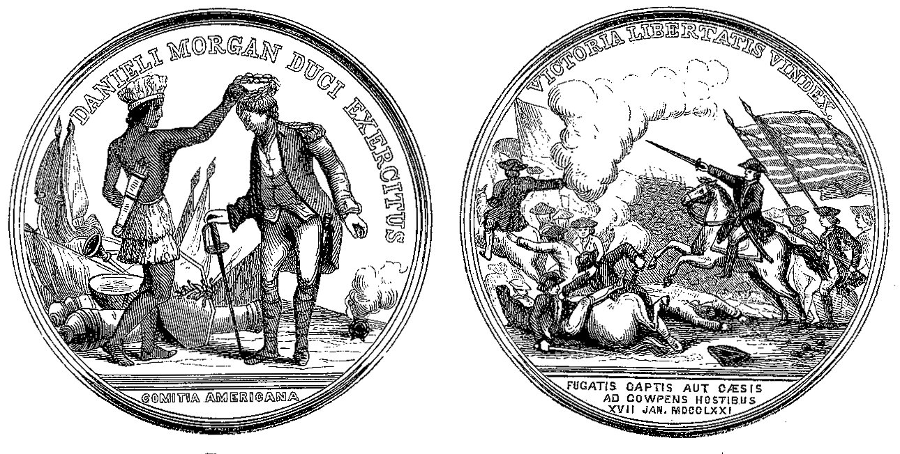 "Gold Medal Awarded to General [Daniel] Morgan", illustration of poem "The Battle of the Cowpens: January 18, 1781" by Thomas Dunn English, in Harper's Monthly Magazine, January 1861. Reverse drawn incorrectly: Note Roman Numeral date of 1771. The actual medal says 1781.